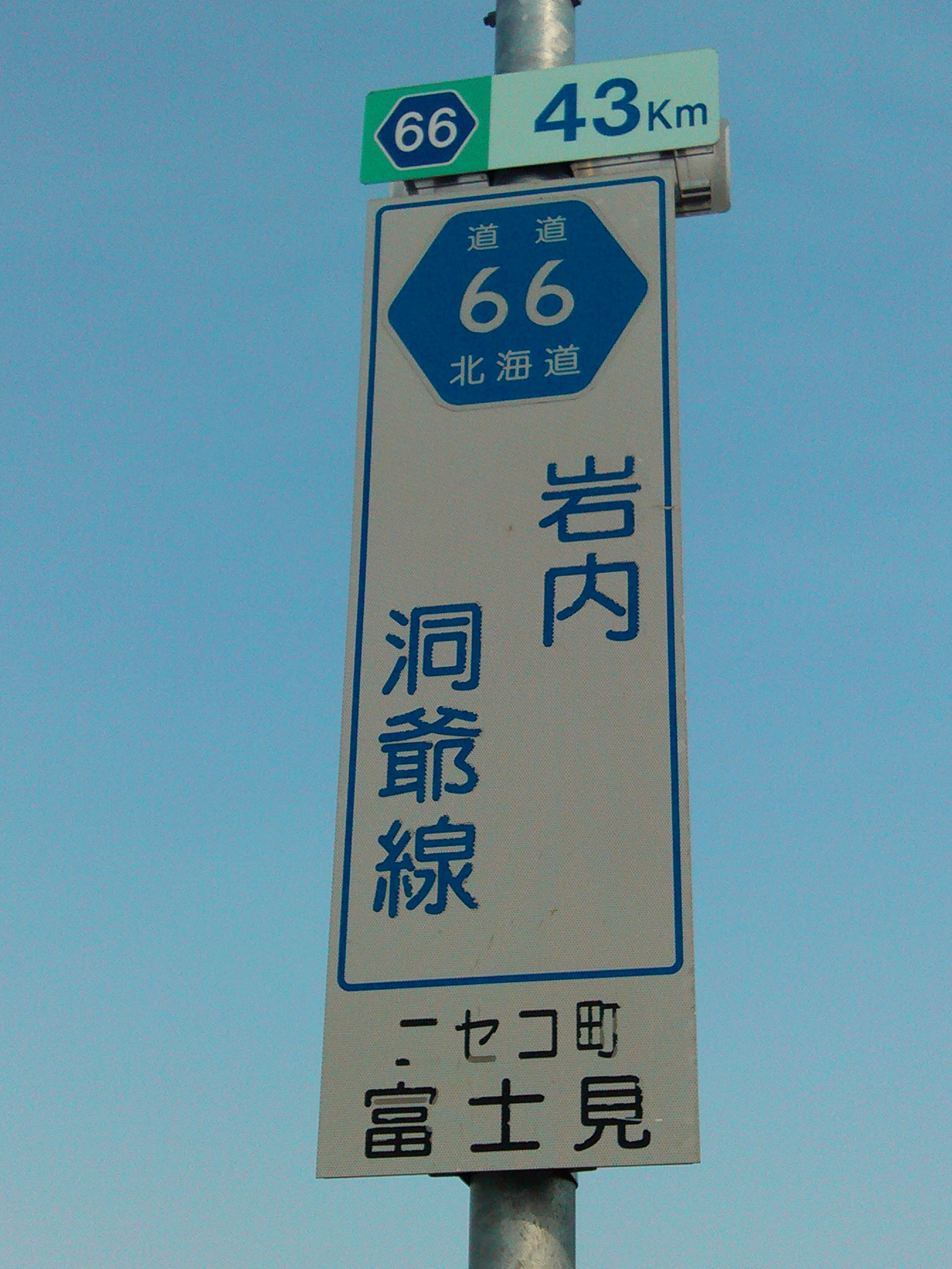 Hokkaidō-dō 66-gō Iwanai Tōya-sen landmark